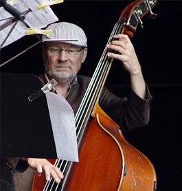 Jens Jefsen